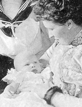 Postcard showing Prince Heinrich of Prussia (1902–1904) in the arms of his mother Princess Irene of Hesse and by Rhine